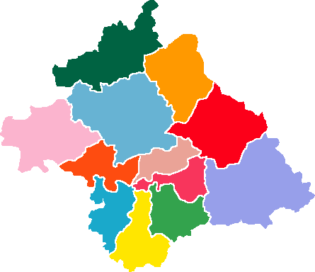 Subdivision of Nanning